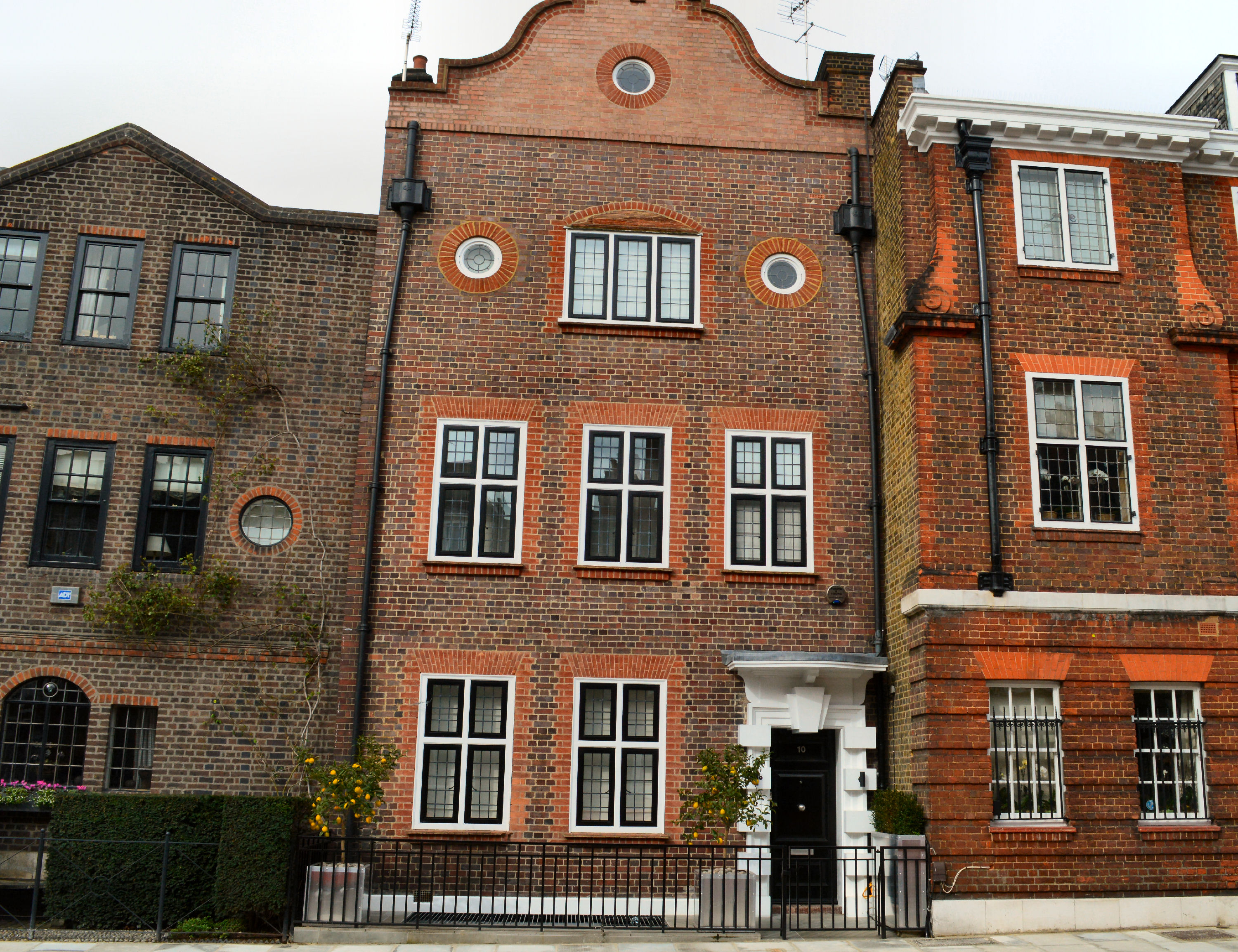 10 Mallord Street, Chelsea, London. Home of John Francis Kavanagh, sculptor and artist, from about 1936 - 1946.